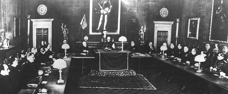 The Meeting of the "Gran Consiglio" of Fascism for the proclamation of the Empire in 1936